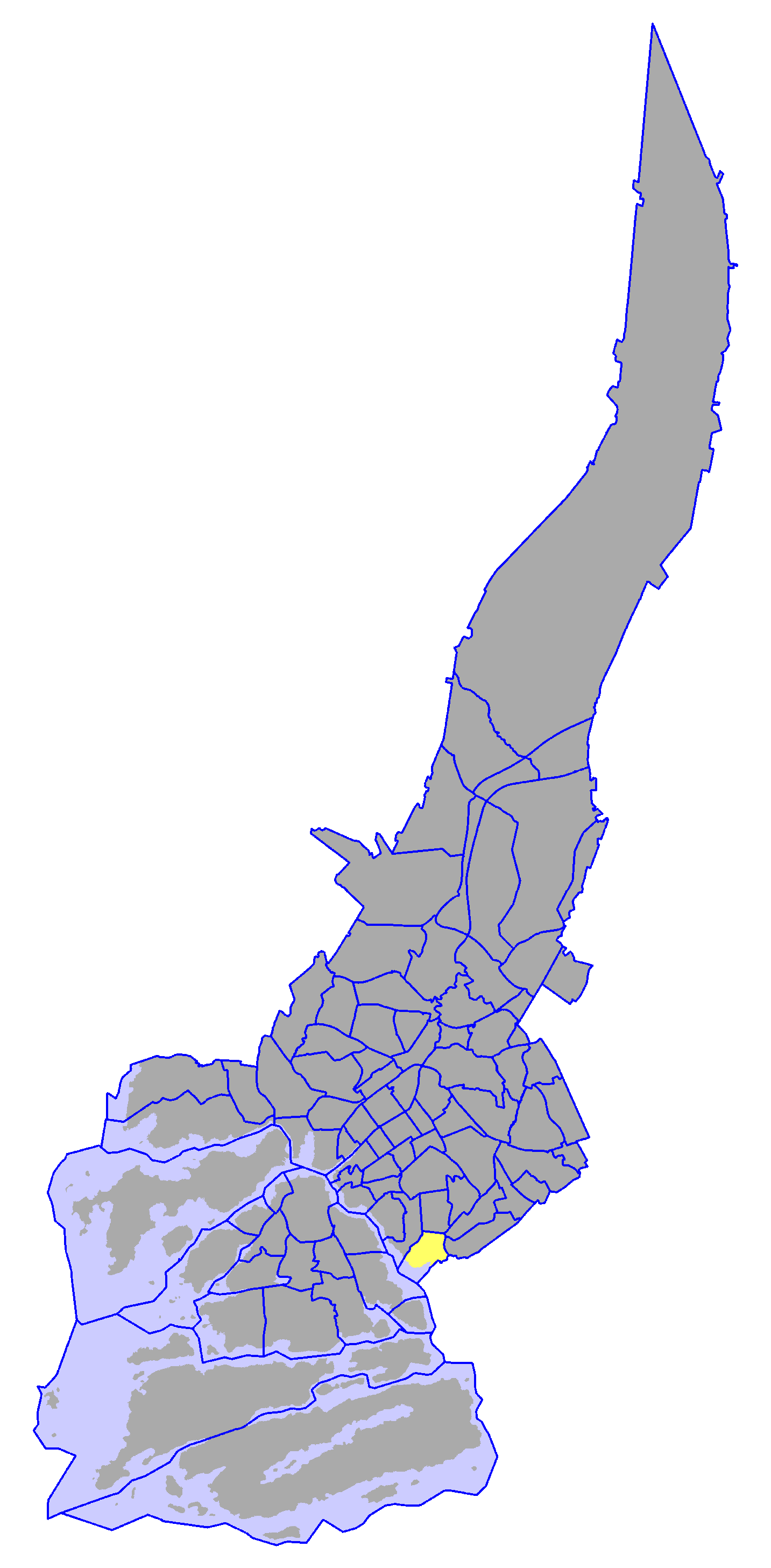 District of Katariina, in Turku